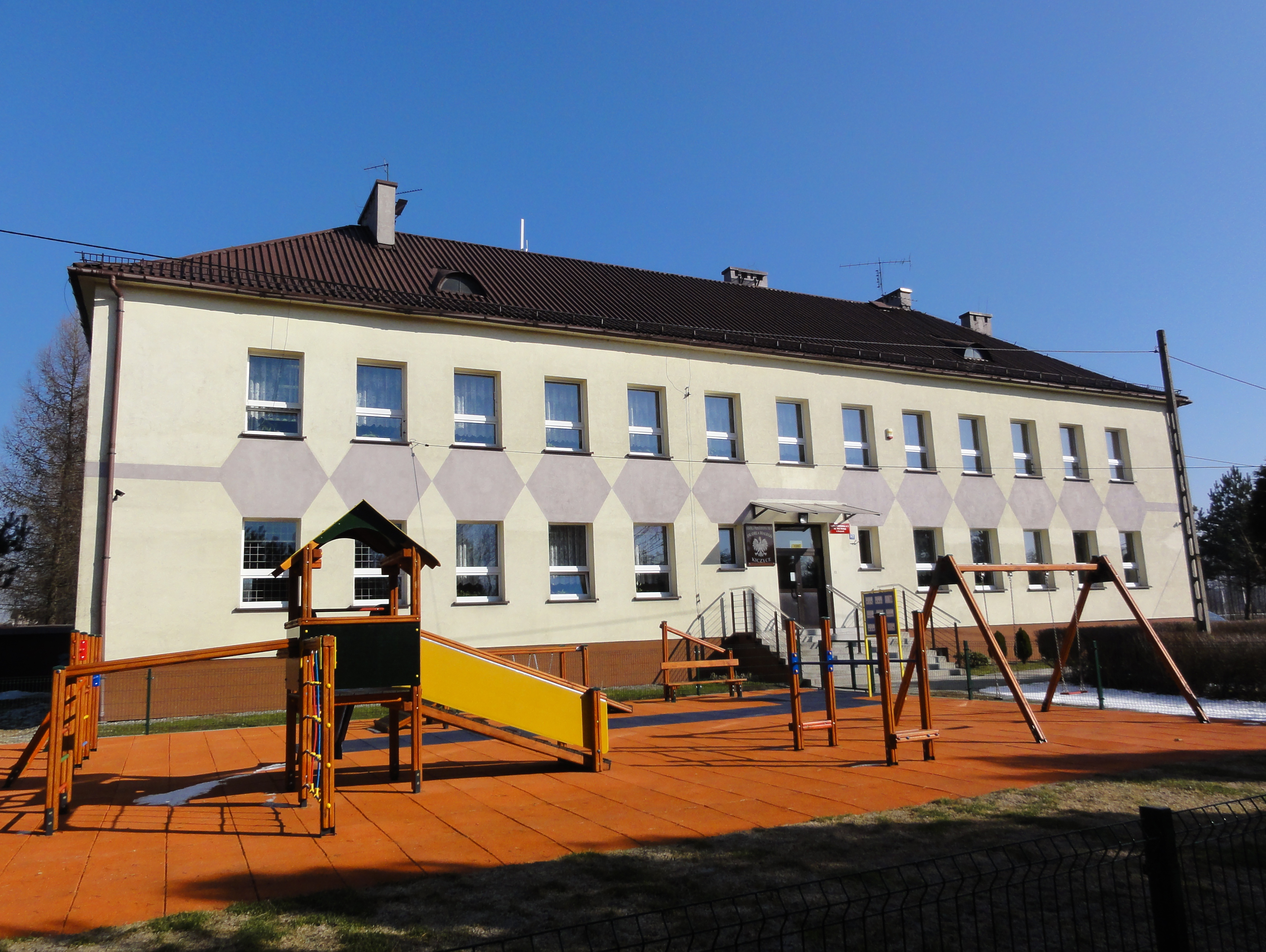 Elementary School of White Eagle in Kiczyce